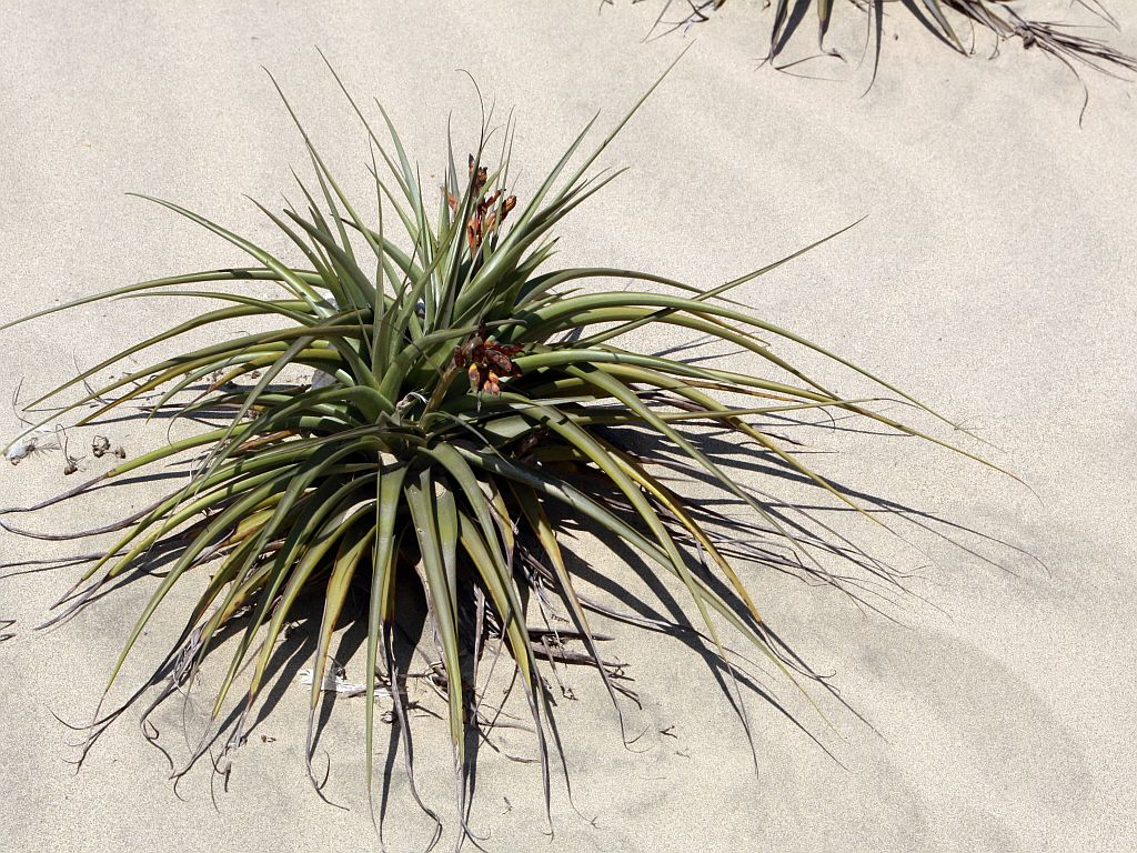 Tillandsia latifolia in habitat in Peru, exact location unknown.